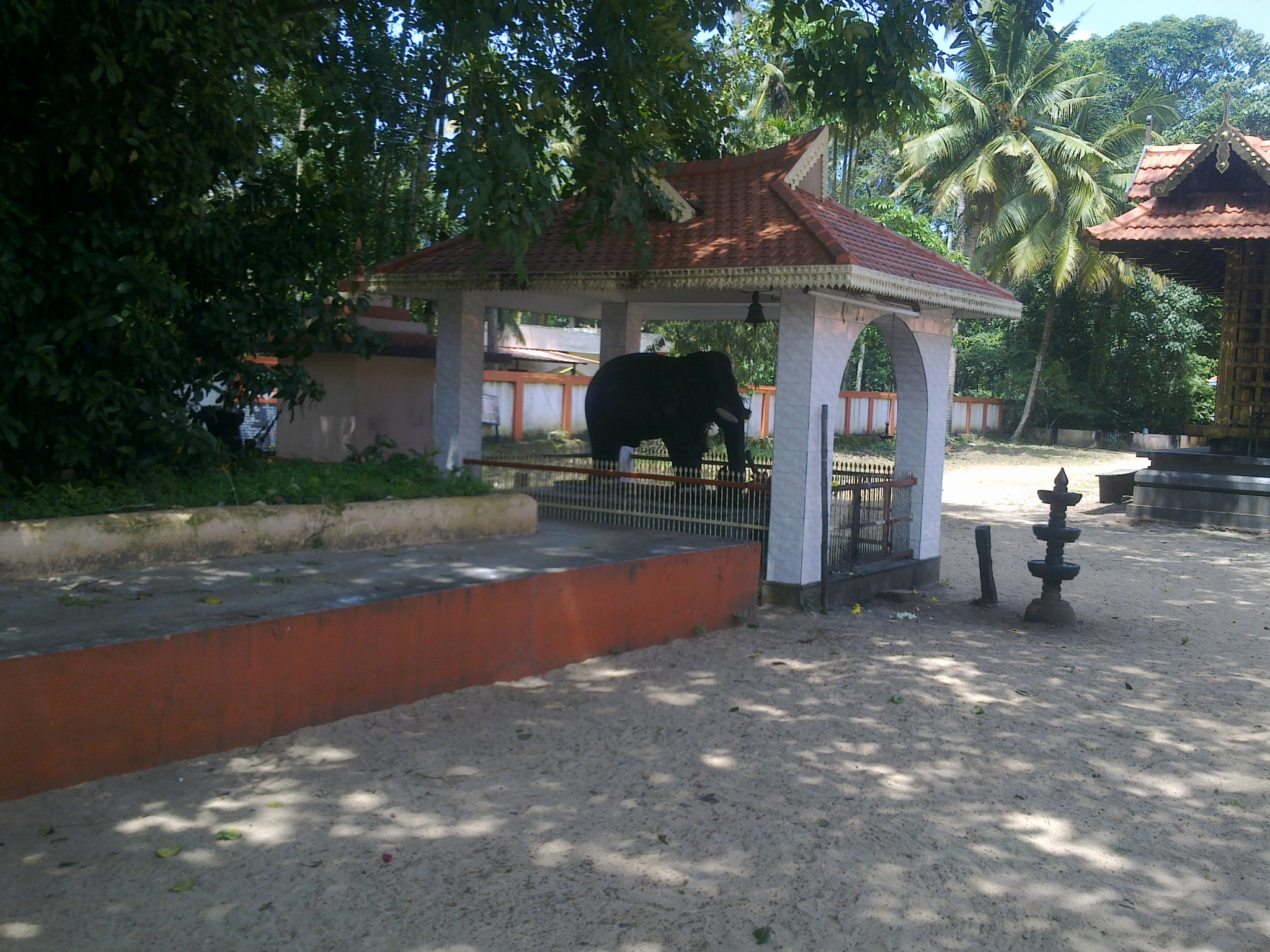 Changamkulangara Mahadeva Temple, Ochira, Kollam